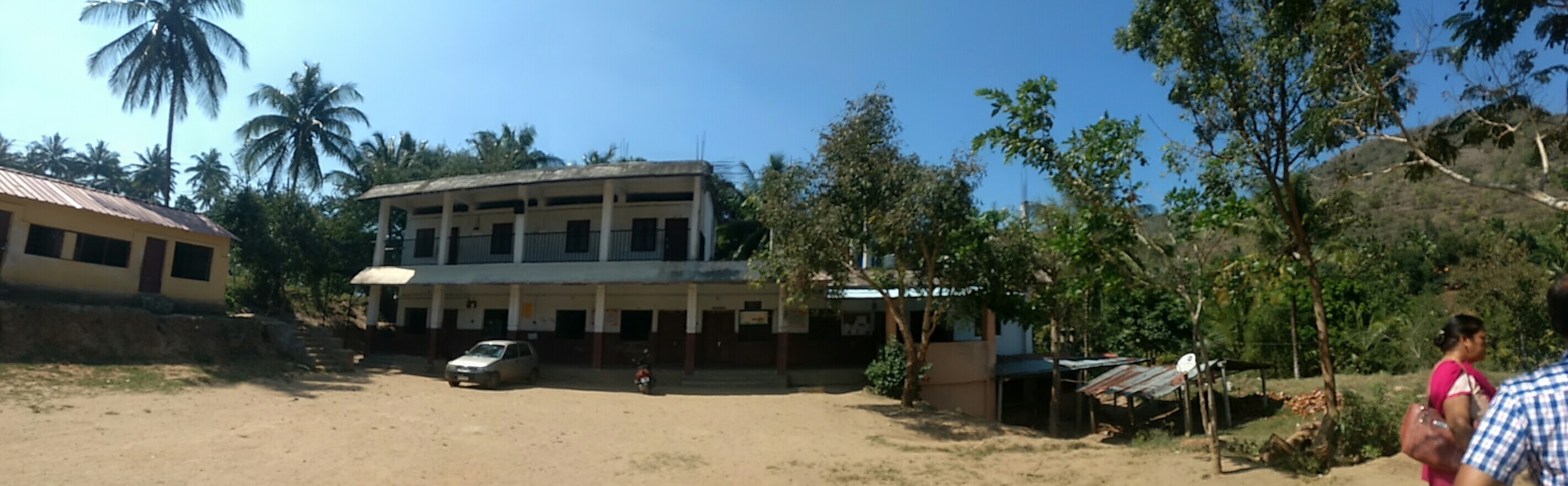 Malleeswara Vidya Nikethan, Agaly